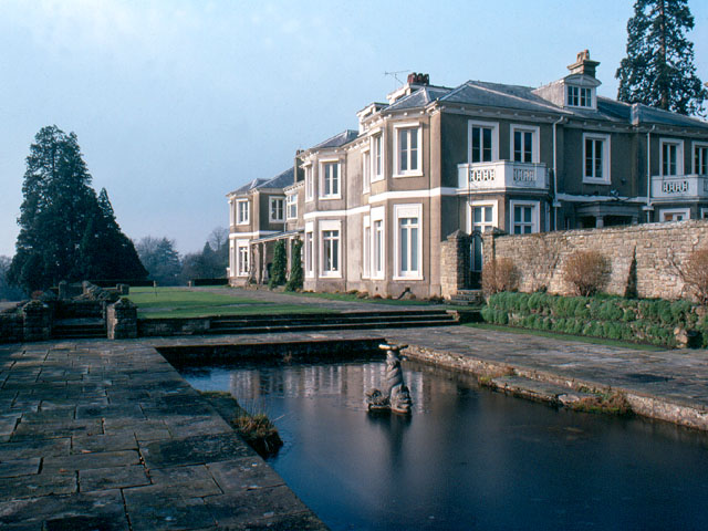 Holmbury House. Holmbury House was built for the Hon. Frederick Leveson-Gower. The architect was George Edmund Street. It is now home to Mullard Space Science Laboratory, University College London.